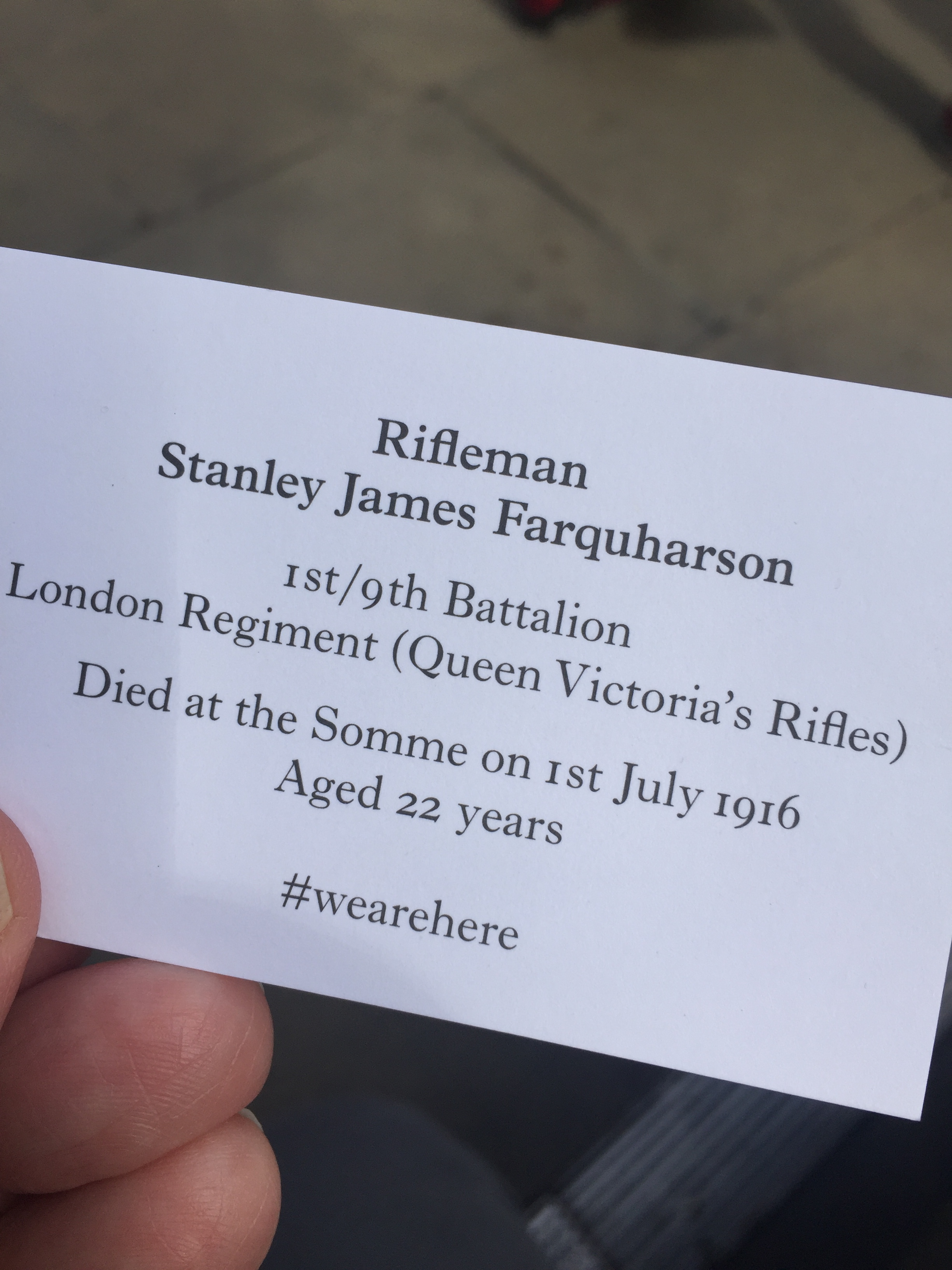 Volunteers dressed as British soldiers commemorate the Battle of the Somme at King's Cross Station, as part of the #wearehere commemoration. This card was handed out by a soldier